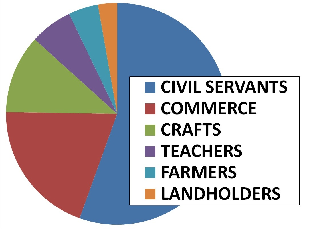 Social composition of Dabrowka students, 1928